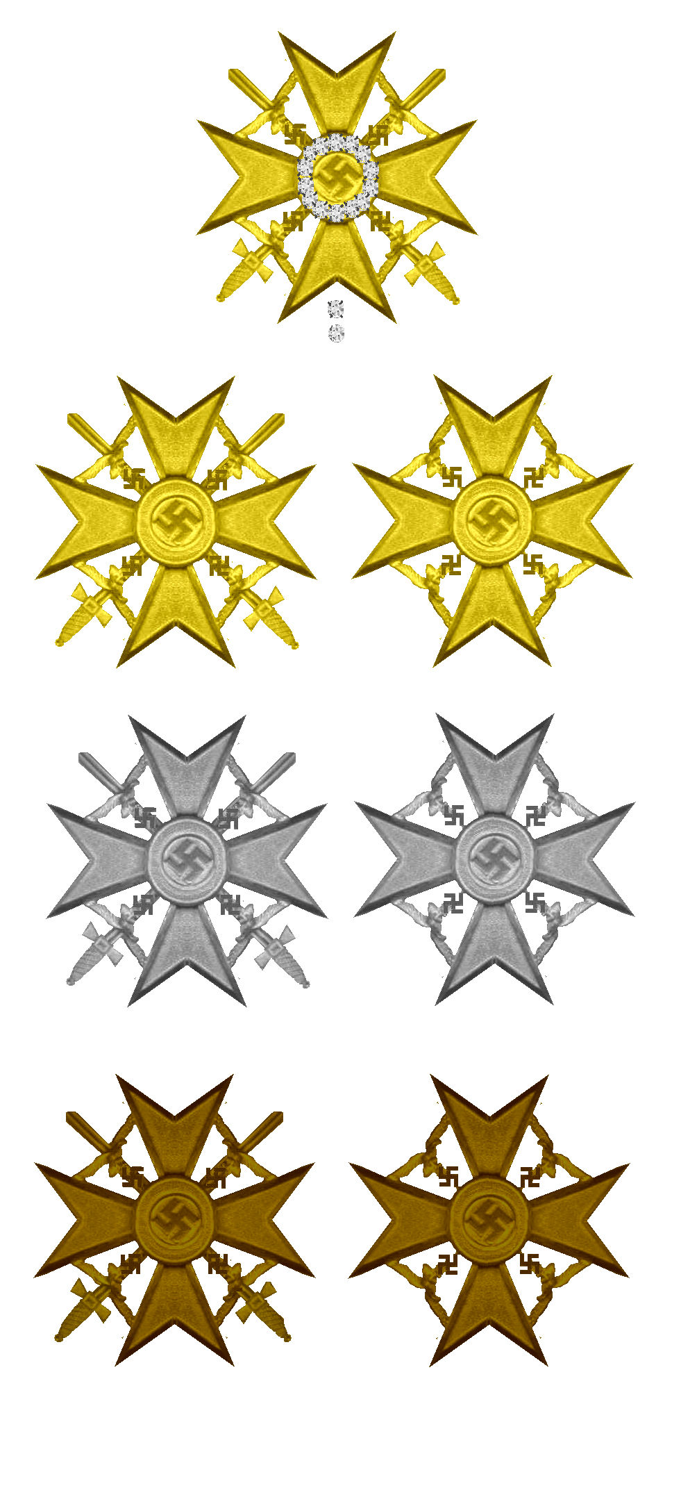 Spanish Cross 1939 Nazi-Germany